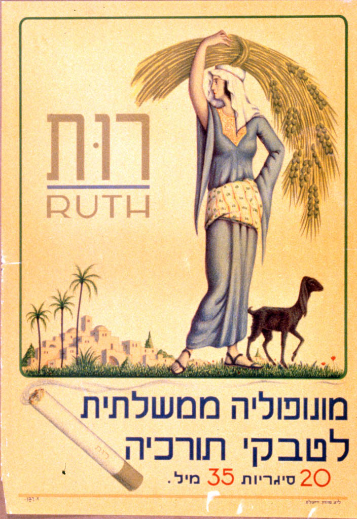 Description: Advertisement for Ruth Turkish Cigarettes Artist: Raban, Zeev Date: circa 1925 Medium: color lithograph Persistent URL: Repository: Yeshiva University Museum Accession number: 1998.632 Rights Information: No known copyright restrictions; may be subject to third party rights. For more copyright information, click here. See more information about this image and others at CJH Museum Collections.